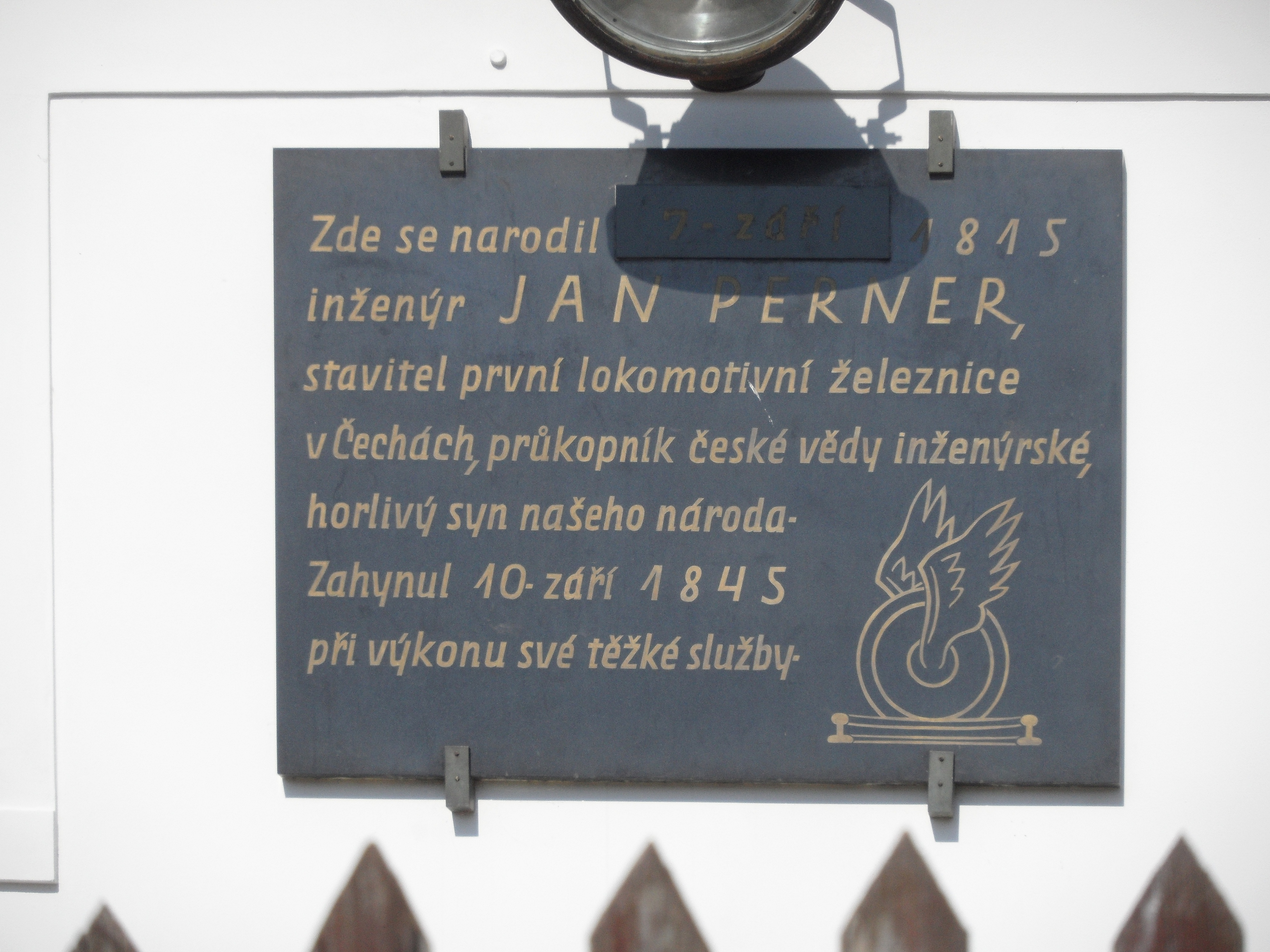 Bratčice (okres KH) F. Water Mill No 34. Detail of Memorial Plaque: Birthplace of Jan Perner, Kutná Hora District, the Czech Republic.